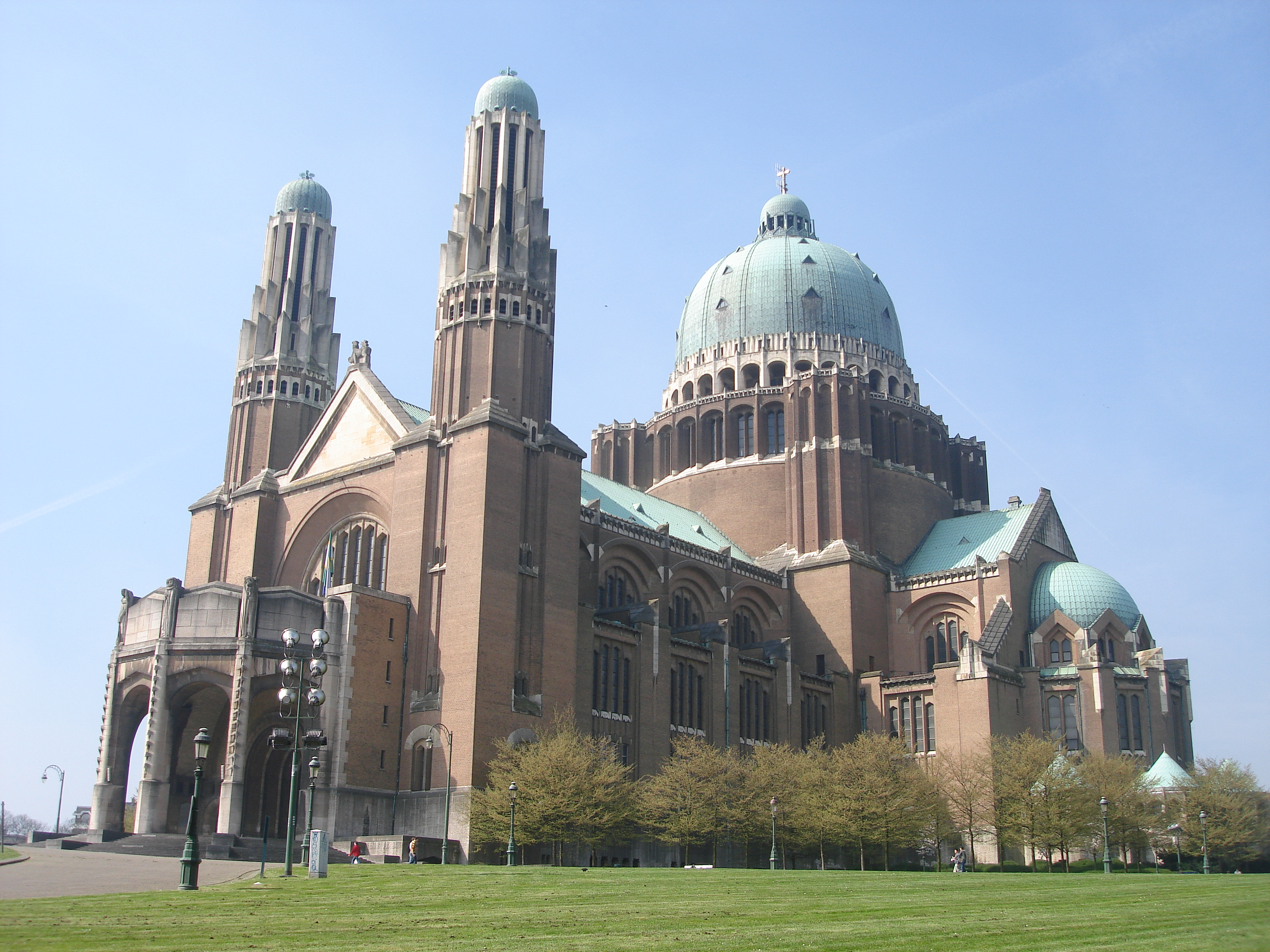 Basilica of the Sacred Heart, Brussels, Belgium.